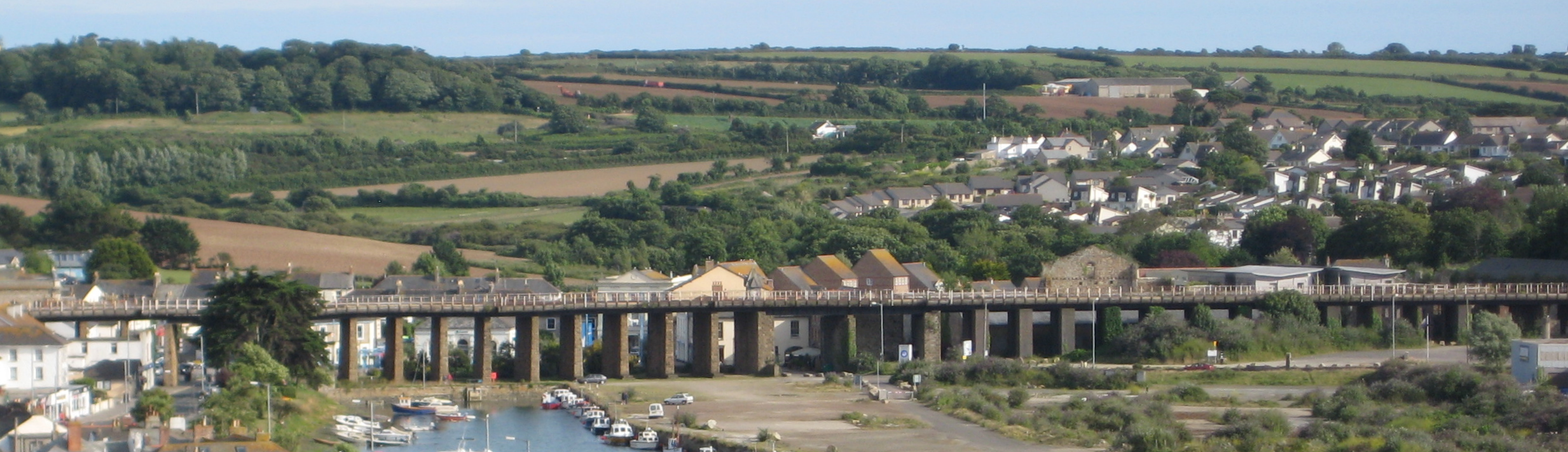 View of the Hayle viaduct